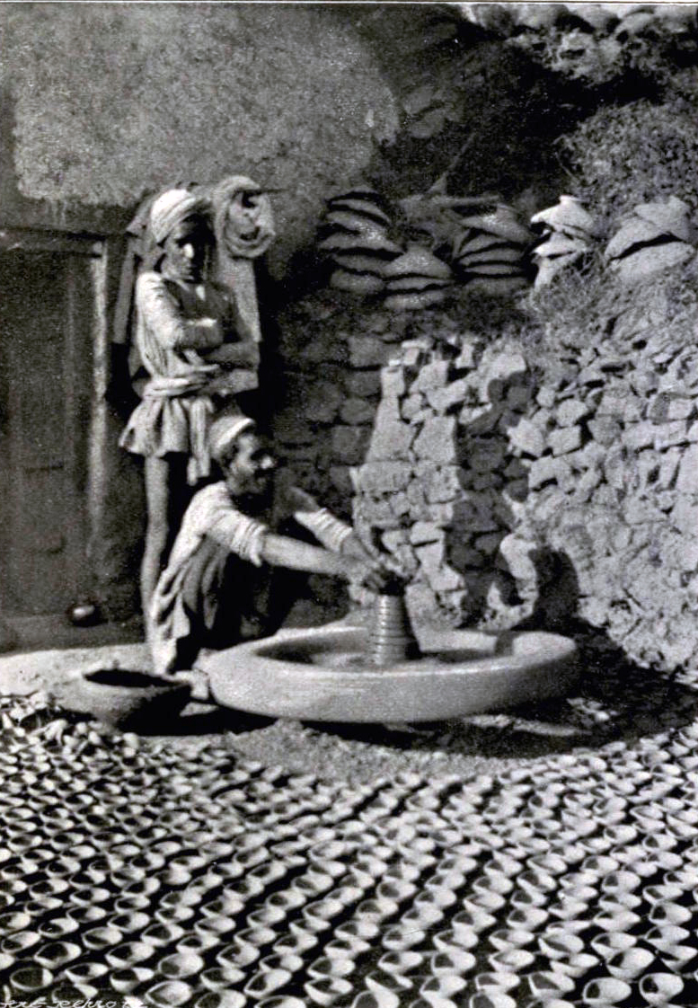 A potter and his apprentice